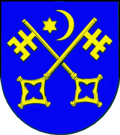 Coat of arms of Sankt Peter-Ording Blasonierung: In Blau zwei schräggekreuzte goldene Schlüssel mit den voneinander abgekehrten Bärten nach oben; zwischen den Schlüsselbärten rechts ein sechsstrahliger goldener Stern und links eine einwärts gekehrte goldene Mondsichel nebeneinander.